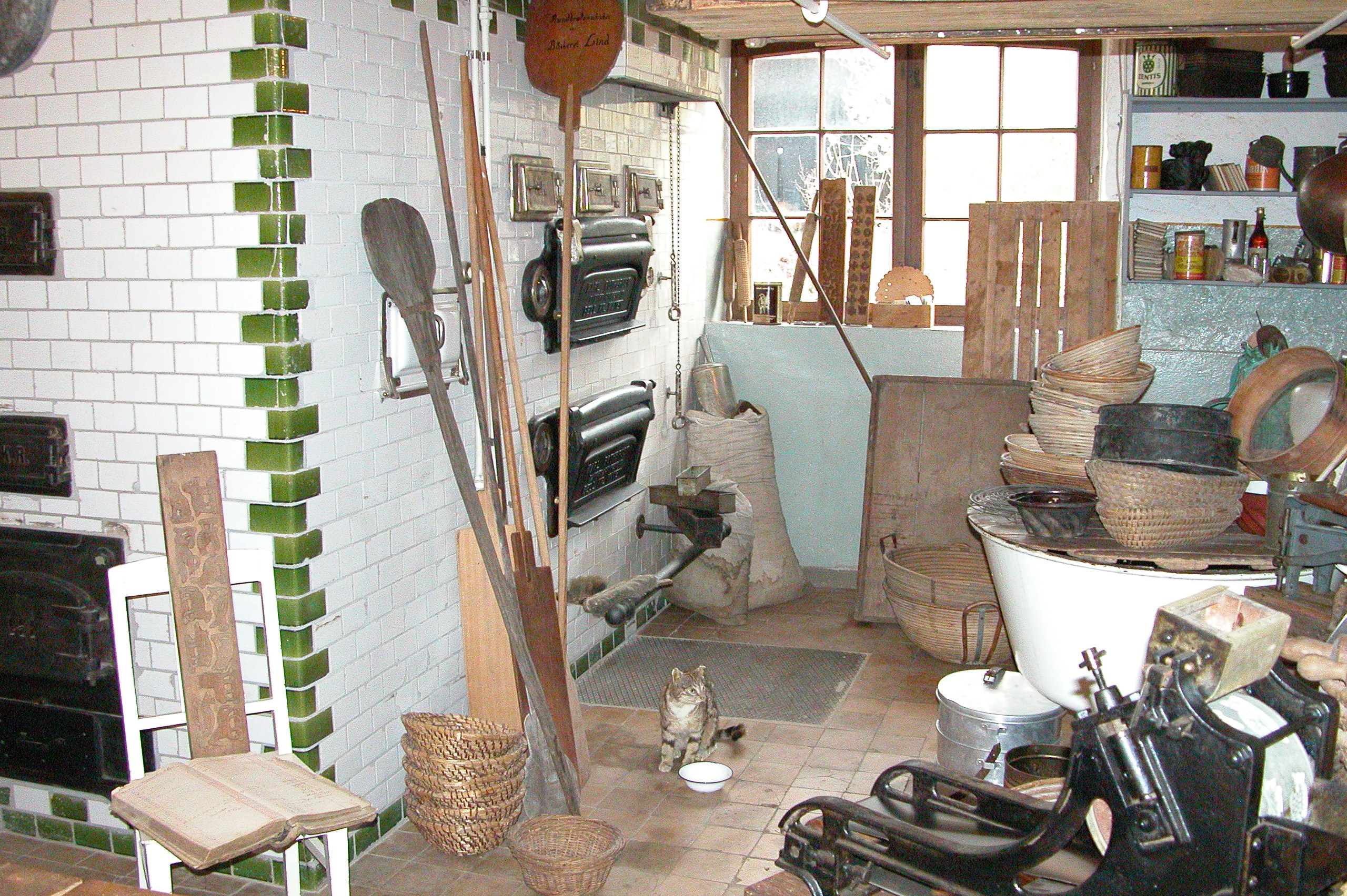 Bakery from Polch/Eifel about 1950, Open air Museum Roscheider Hof